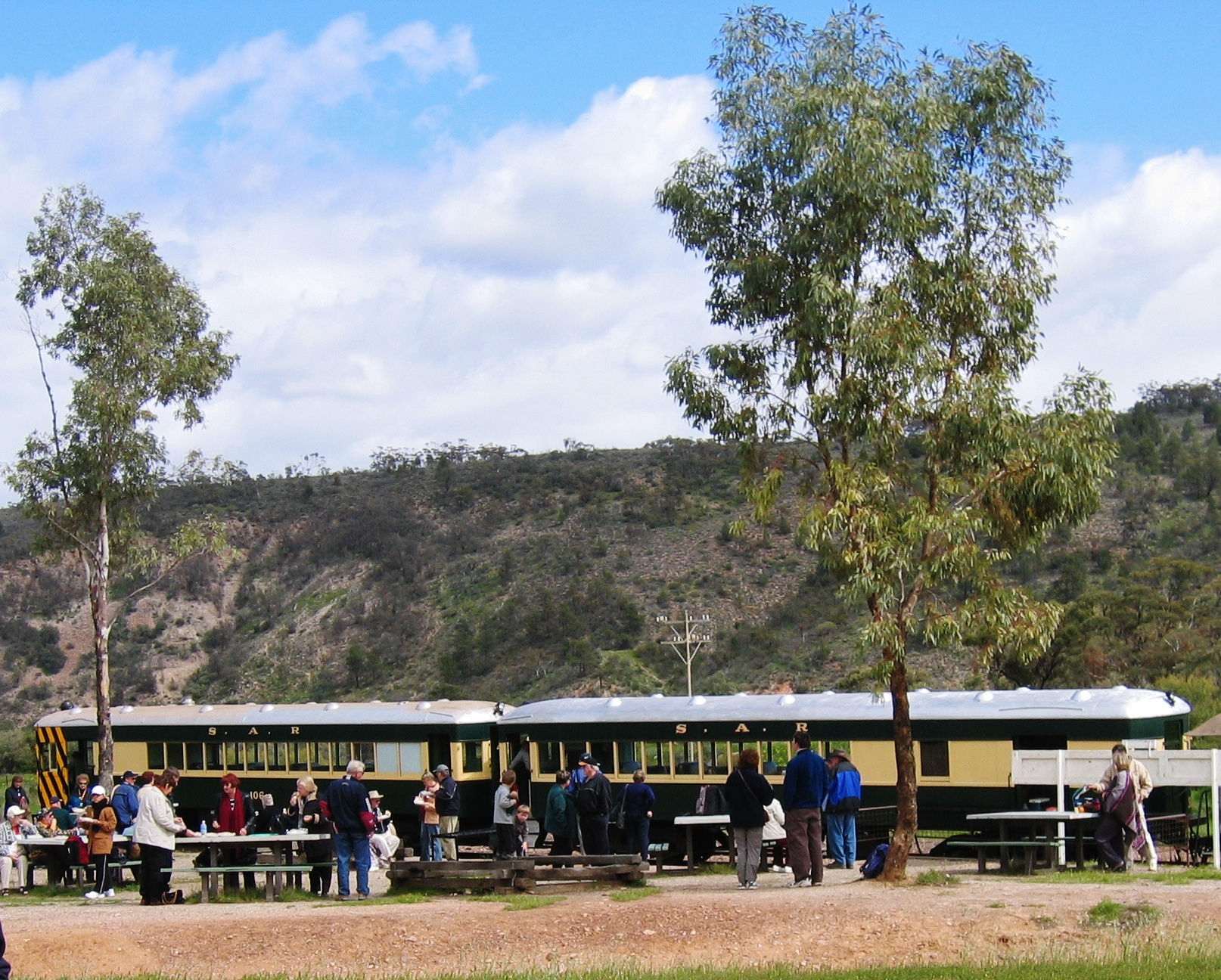 Pichi Richi Railway carriages at Saltia in at the northernmost extent of South Australia's Mid North region